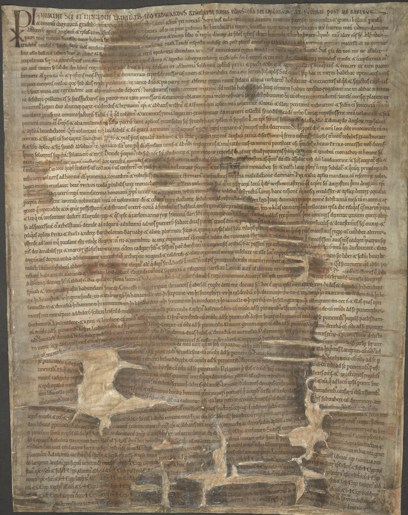 First charter of Westminster Abbey, granted by Edward the Confessor